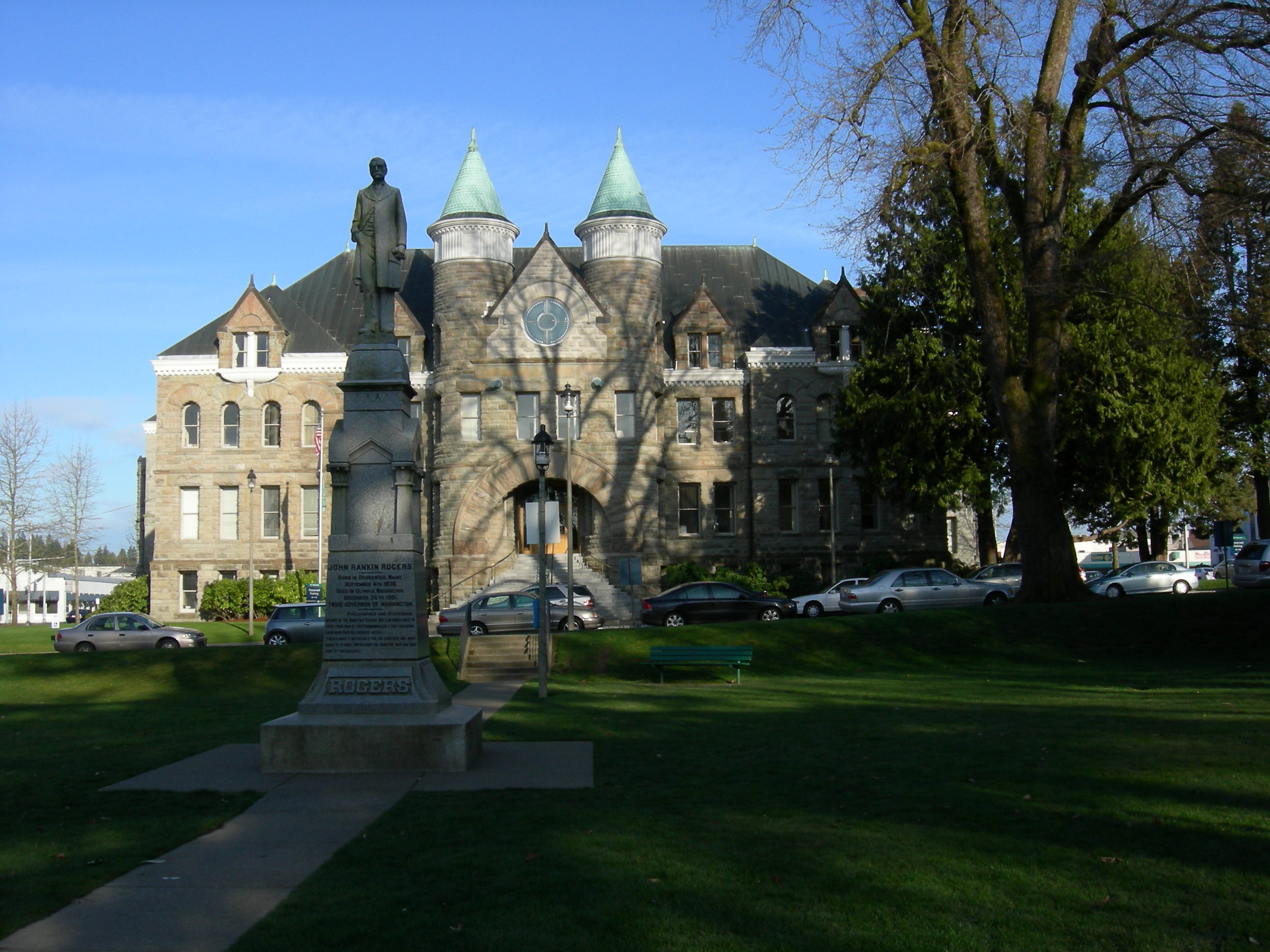 HQ of the Washington State Superintendent of Public Instruction, downtown Olympia, Washington, seen from Sylvester Park. Statue in foreground is John Rankin Rogers; statue dedicated 1905. Designed by Willis A. Ritchie and built 1890–1892 as the Thurston County Courthouse, it served 1905–1928 as the state capitol building. A fire in 1928 resulted in the loss of a central tower. (Source for this info: Jeffrey Karl Oschsner, Shaping Seattle Architecture, University of Washington Press (1994, revised 1998). ISBN 0-295-97366-8. p. 44). Both the building and the park are on the National Register of Historic Places.